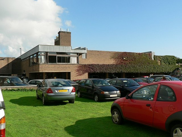 Needler Hall, University of Hull, Cottingham, East Riding of Yorkshire, England.With one of the more modern buildings in this hall of residence. Many new students (and their parents) have arrived on the first day of the new academic year.